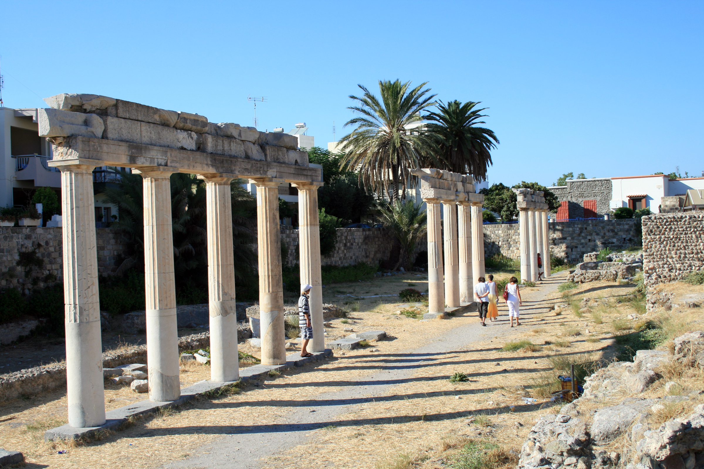 Gymnasion of Kos, archeologic site in Kos city, Kos island (Greece)